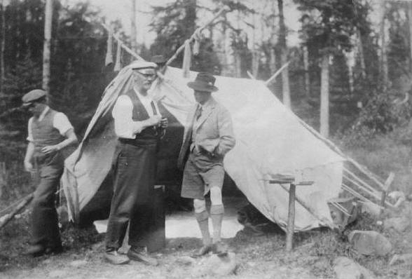 Prince Edward, Prince of Wales speaking with guide in the woods near Nipigon, Ontario, Canada.